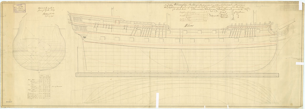 Isis (1774); Renown (1774) Scale: 1:48. Plan showing the body plan, sheer lines, and longitudinal half-breadth proposed (and approved) for Renown (1774), and later used for Isis (1774), both 50-gun Fourth Rate two-deckers built in private yards. The plan includes a table of mast and yard dimensions. Signed by John Williams [Surveyor of the Navy, 1765-1784]. ISIS 1774